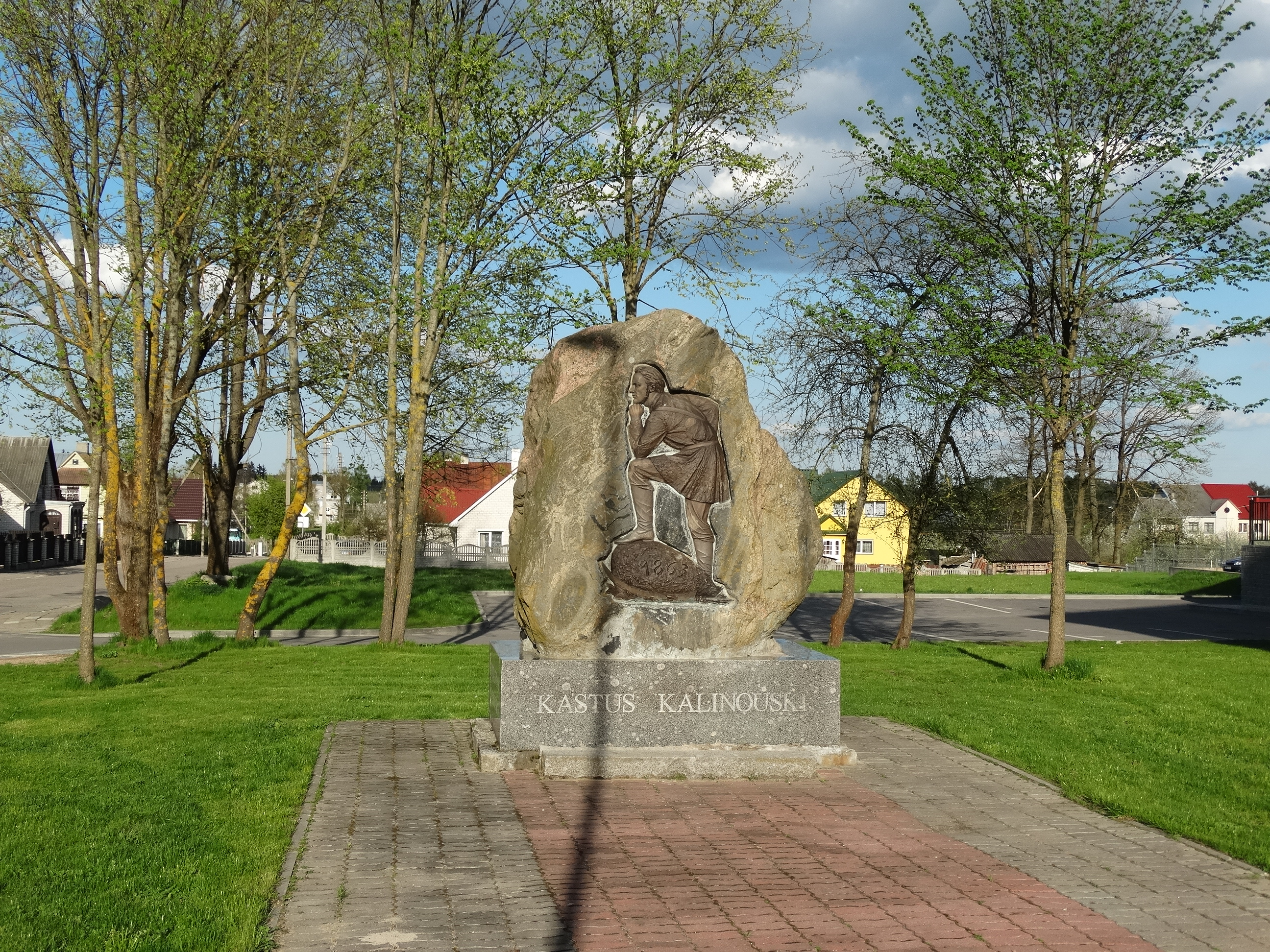 Memorial stone, Šalčininkai, Lithuania